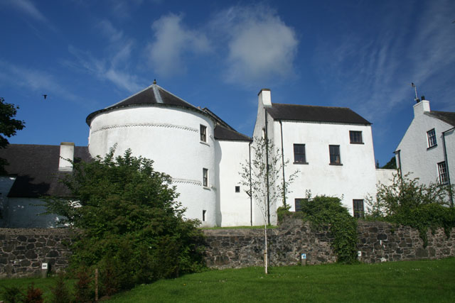 Bellaghy Bawn Marked as Bellaghy Castle on OS maps, this building is more correctly called a Bawn. A Bawn is a fortified house. This one was built as part of the Plantation of Ulster by the Vintners' Company of London who were granted the land around Bellaghy in 1619. It was intended as a place of refuge in times of trouble. The round tower in the photograph dates from at least 1622.